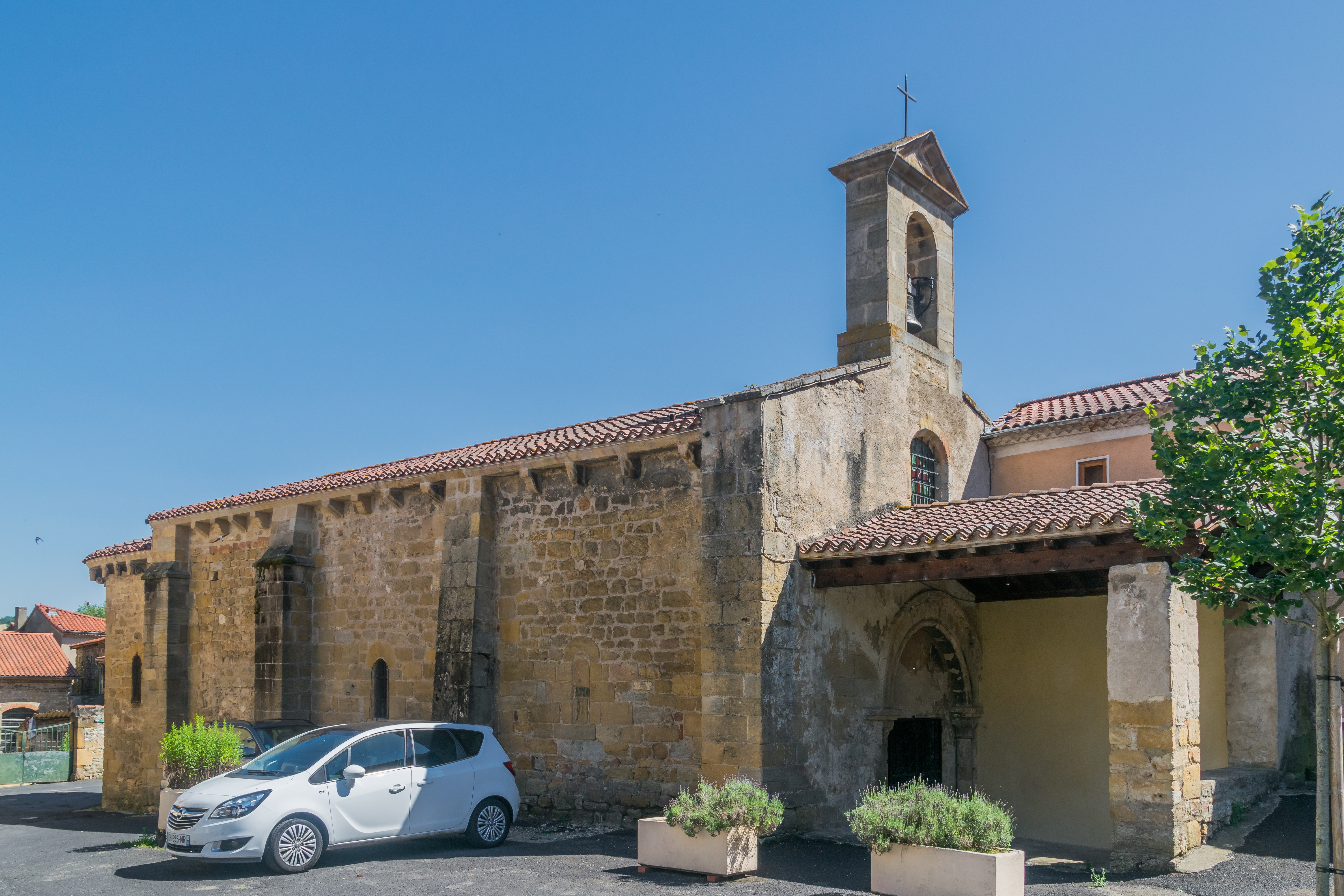 Saint Magdalene Church of Orsonnette, Puy-de-Dôme, France .